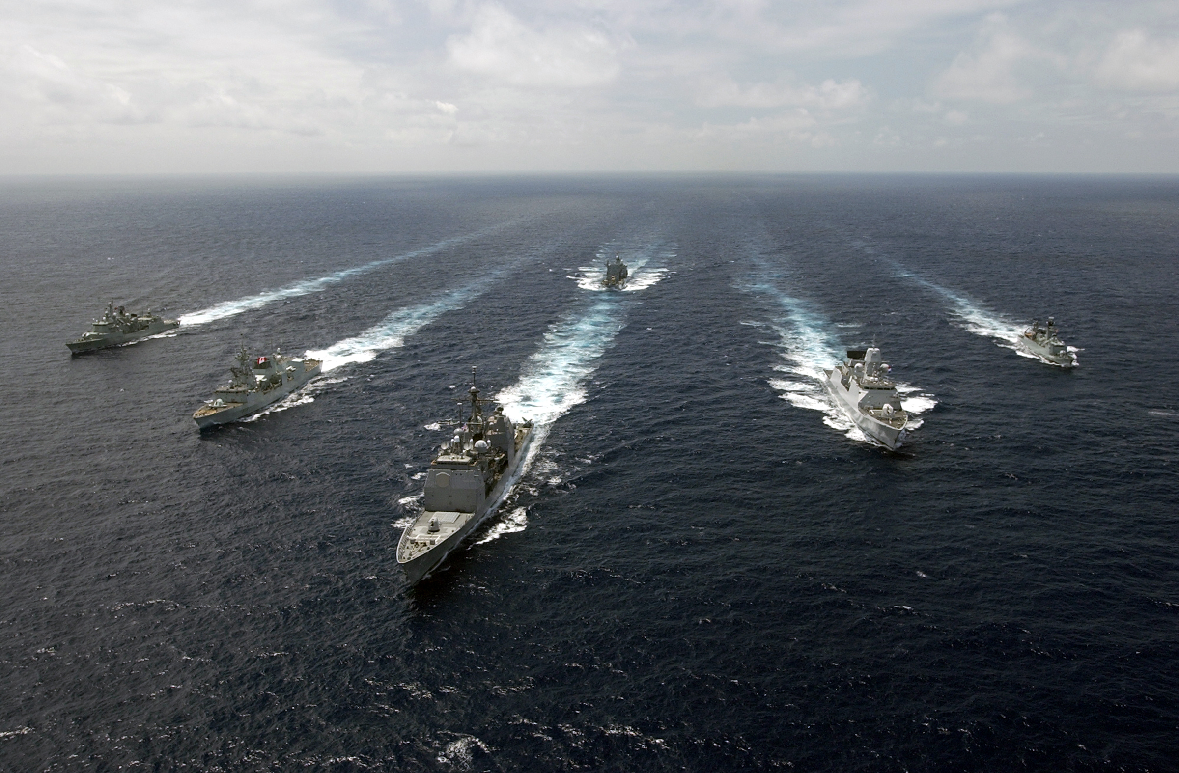 070813-N-5459S-543 ATLANTIC OCEAN (Aug. 13, 2007) - The ships of Standing NATO Maritime Group (SNMG) 1 transit in formation for a photo exercise. From left, Portuguese frigate NRP Alvares Cabral (F331), Canadian frigate HMCS Toronto (FFH 333), American guided-missile cruiser USS Normandy (CG 60), German replenishment tanker FGS Spessart (A1442), Dutch frigate HNLMS Evertsen (F805), and Danish corvette HDMS Olfert Fischer (F355). SNMG-1 conducted NATO’s first maritime out-of-area deployment by circumnavigating Africa.